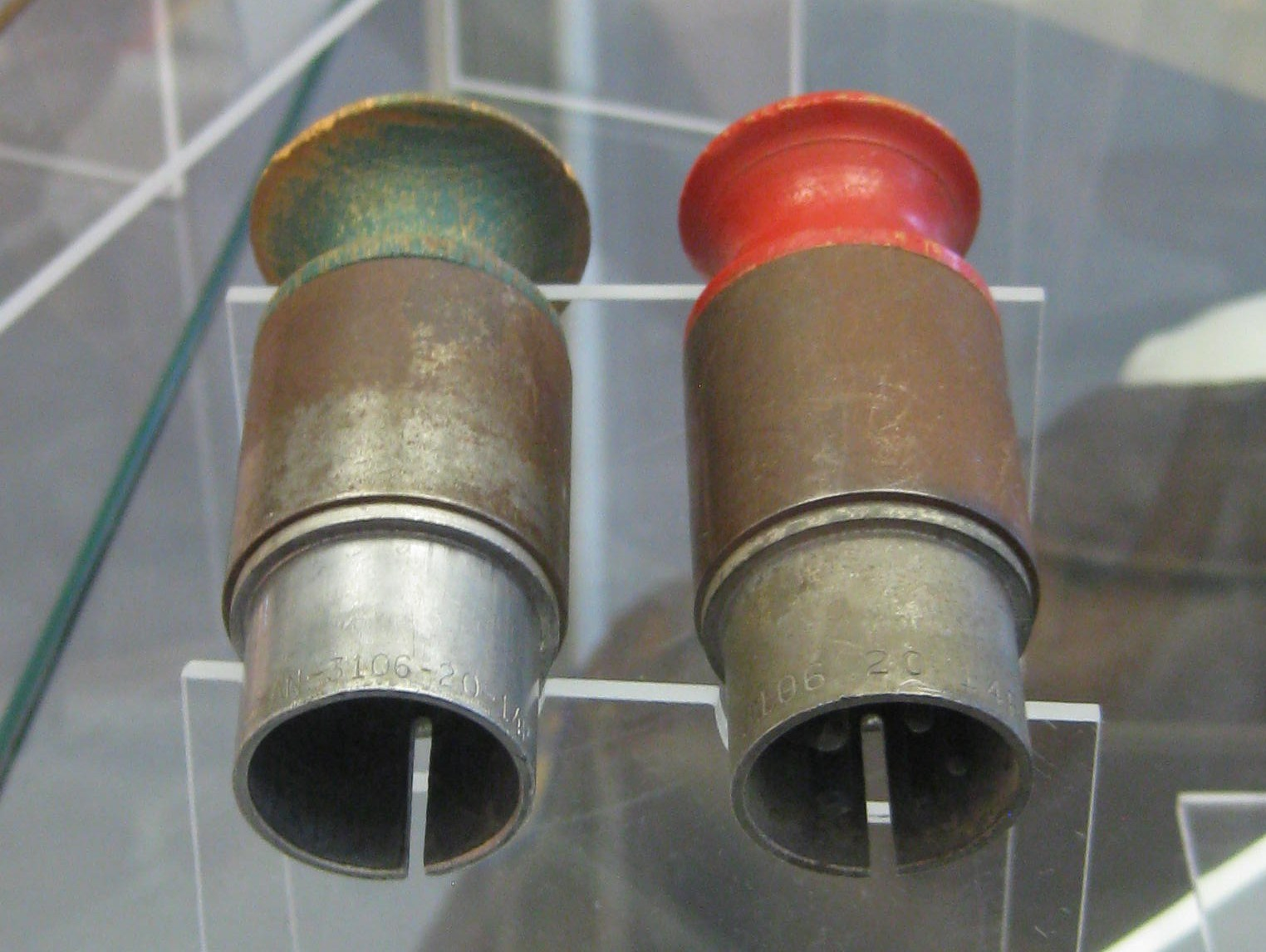 Arming plugs for a 'Little Boy' type atomic bomb on display at the National Air and Space Museum's Steven F. Udvar-Hazy Center. The plugs were found in the navigator's compartment in the B-29 bomber Enola Gay. The green plug may have been used in the bomb which was dropped on Hiroshima. The plug on the right is probably a spare.